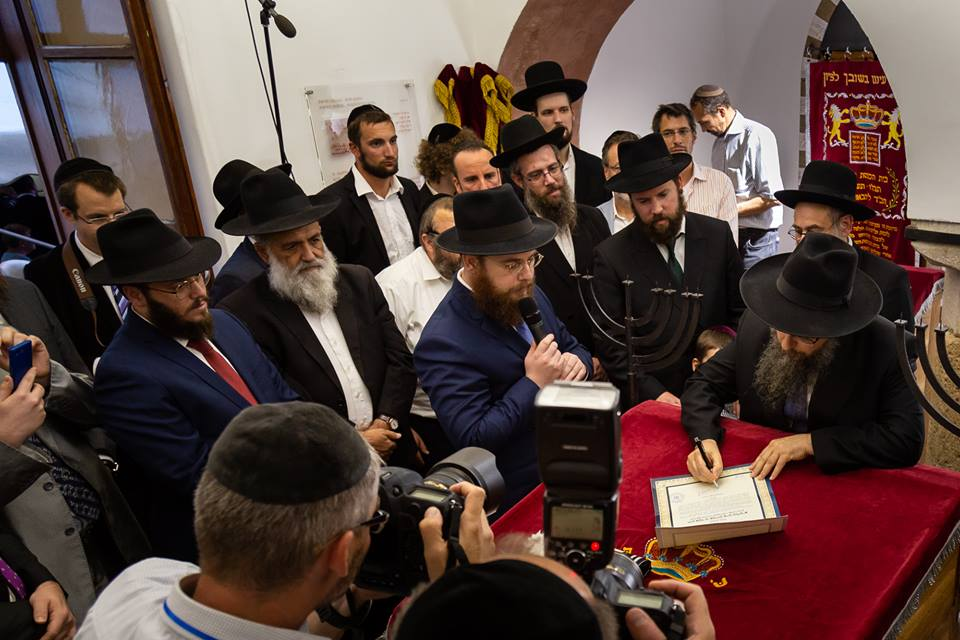 the celebration of the re-establishment of the Buda Castle synagogue